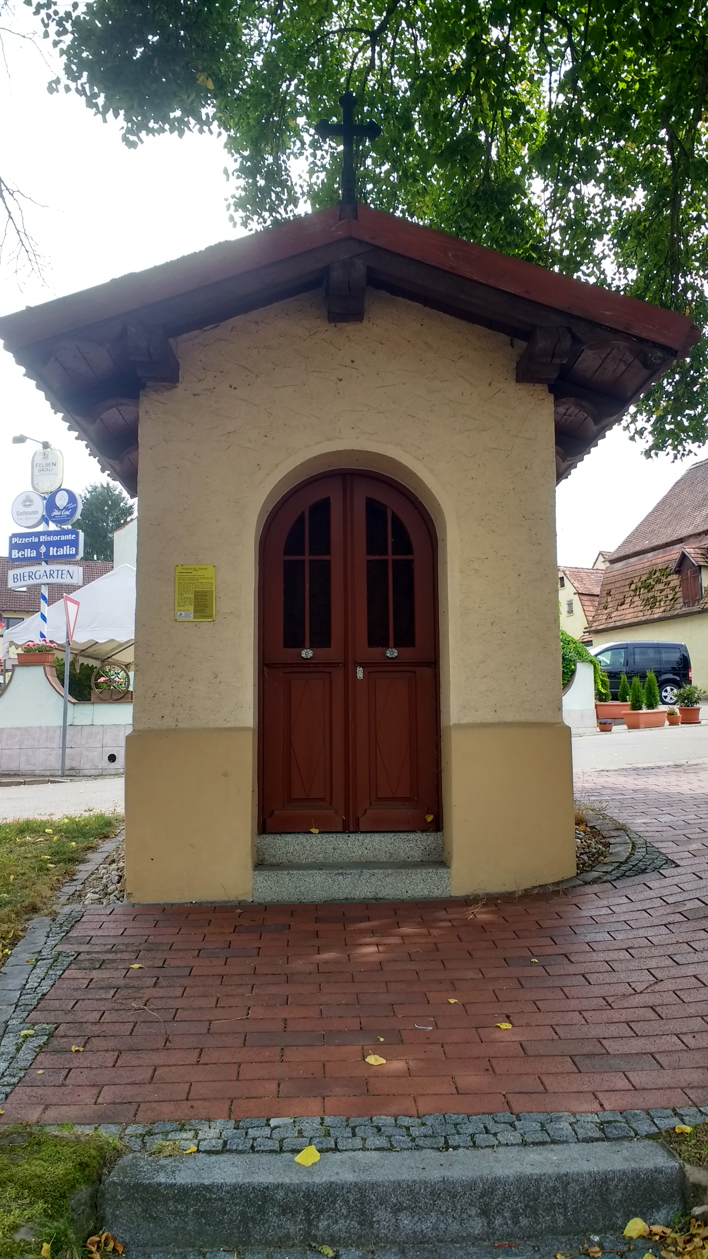 Hueber Chapel in Pleinfeld